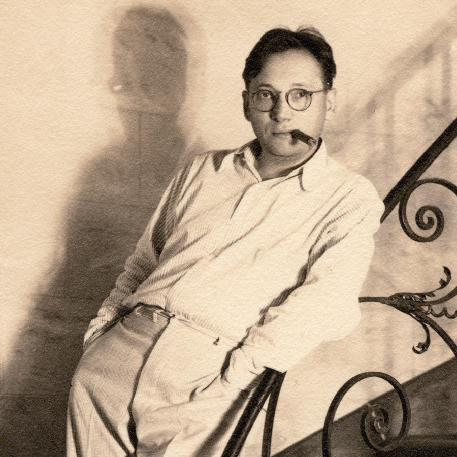 Picture of Jo Swerling, circa 1940, from his grandson's collection.